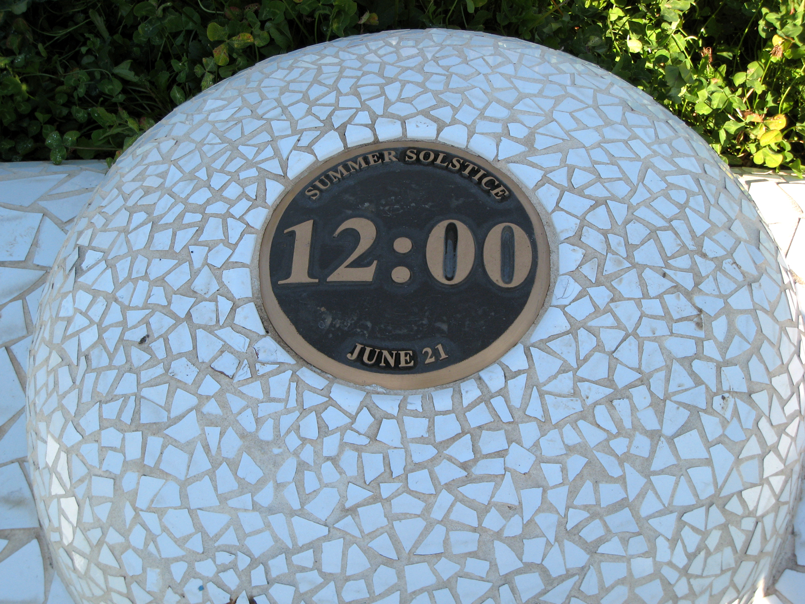 Time marker for Sundial Bridge at Turtle Bay, Redding, California, USA. The time is only accurate on the summer solstice.